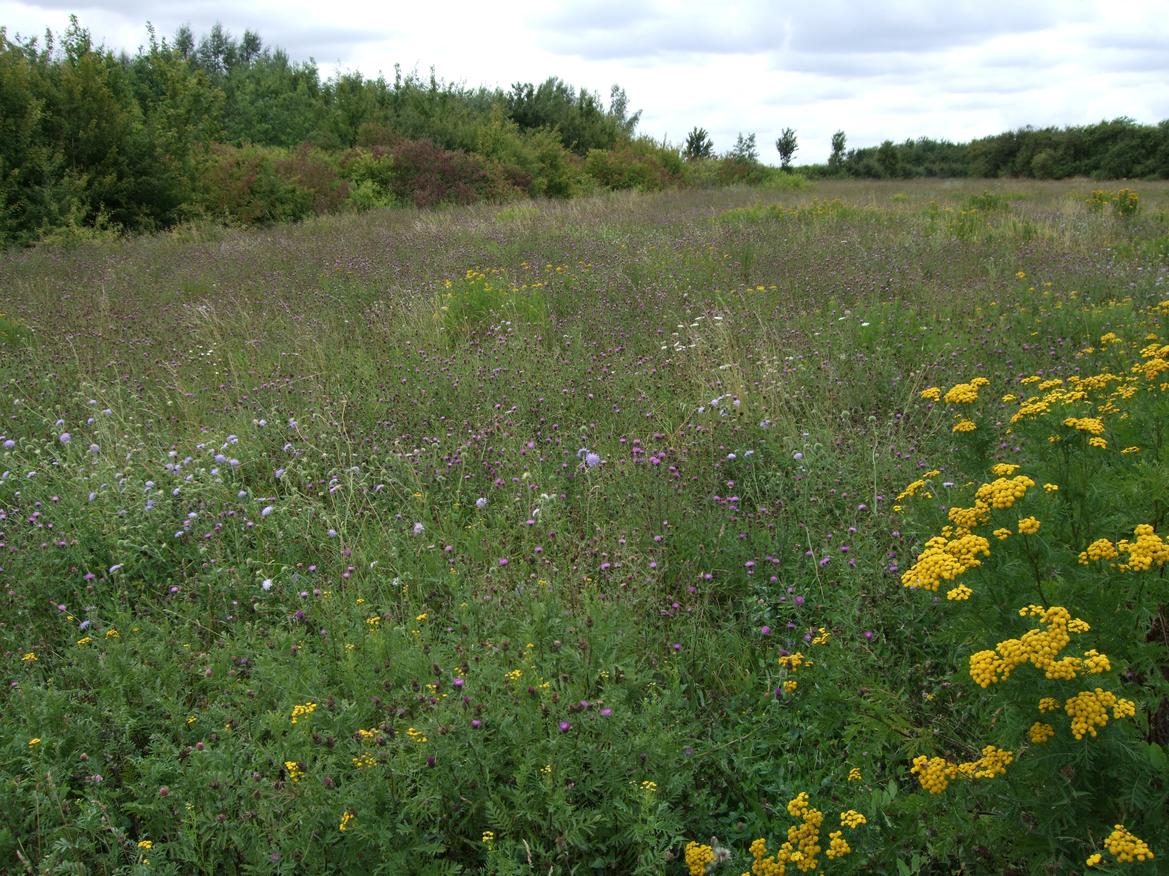 Rushcliffe Park Wildflower Meadow